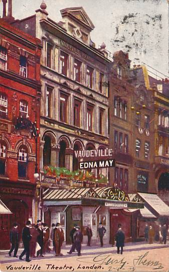 Postcards of the Vaudeville Theatre, London, c. 1905; sent in 1908